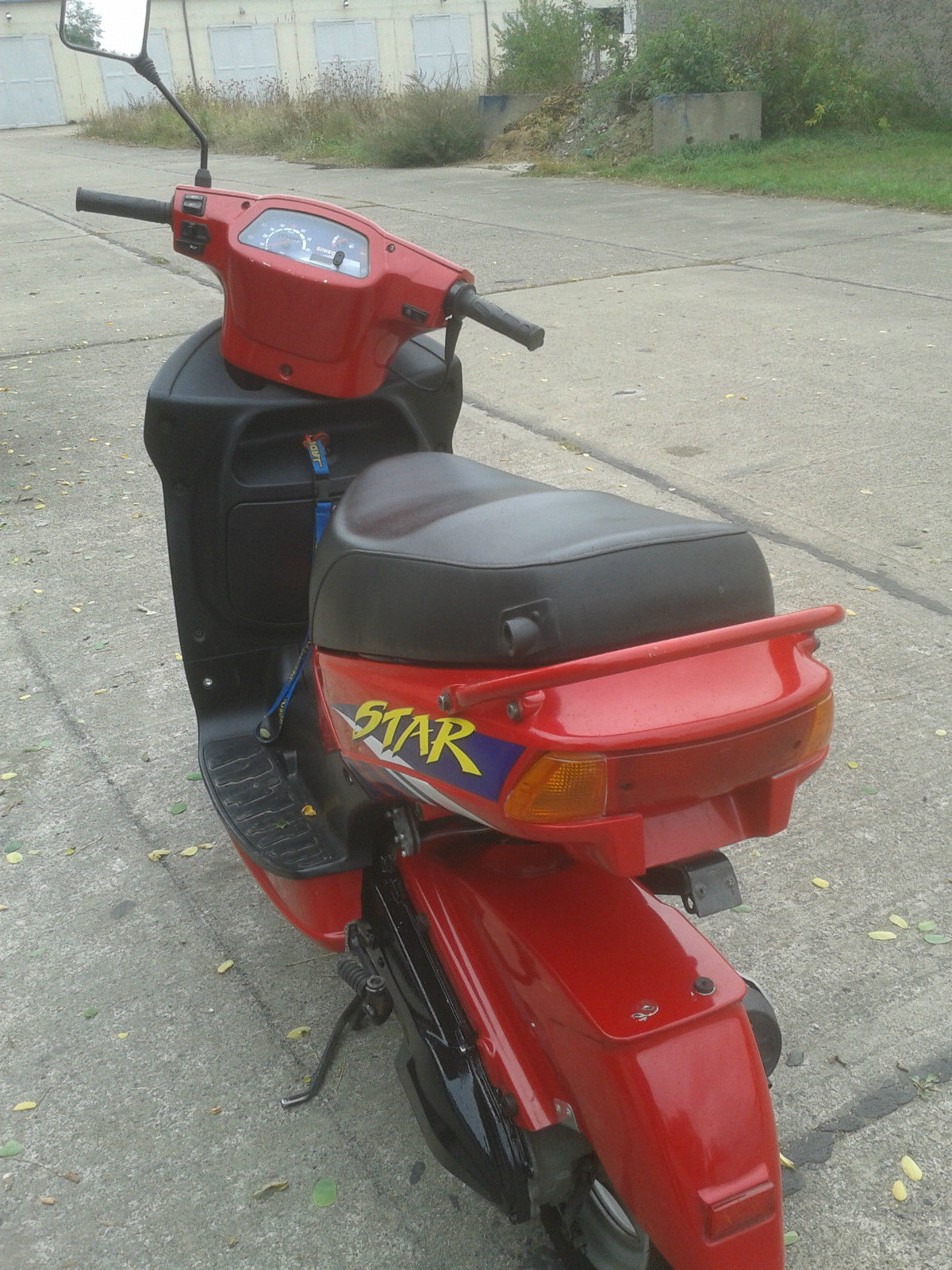 Simson Star 50 from 1998